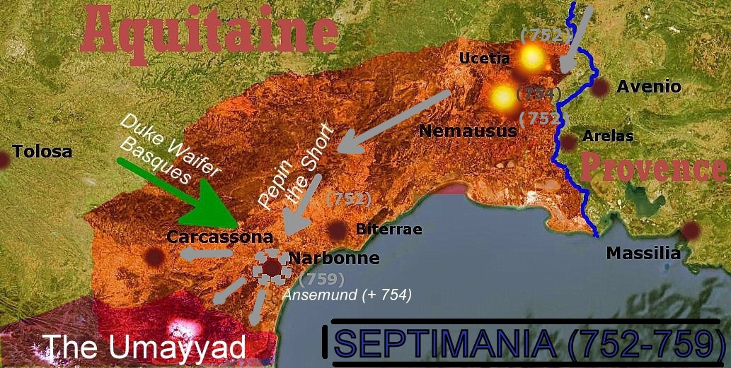 Carolingian thrust into Septimania starting in 752 up to the conquest of Narbonne and Pepin´s advance into Roussillon, with a depiction of major war events